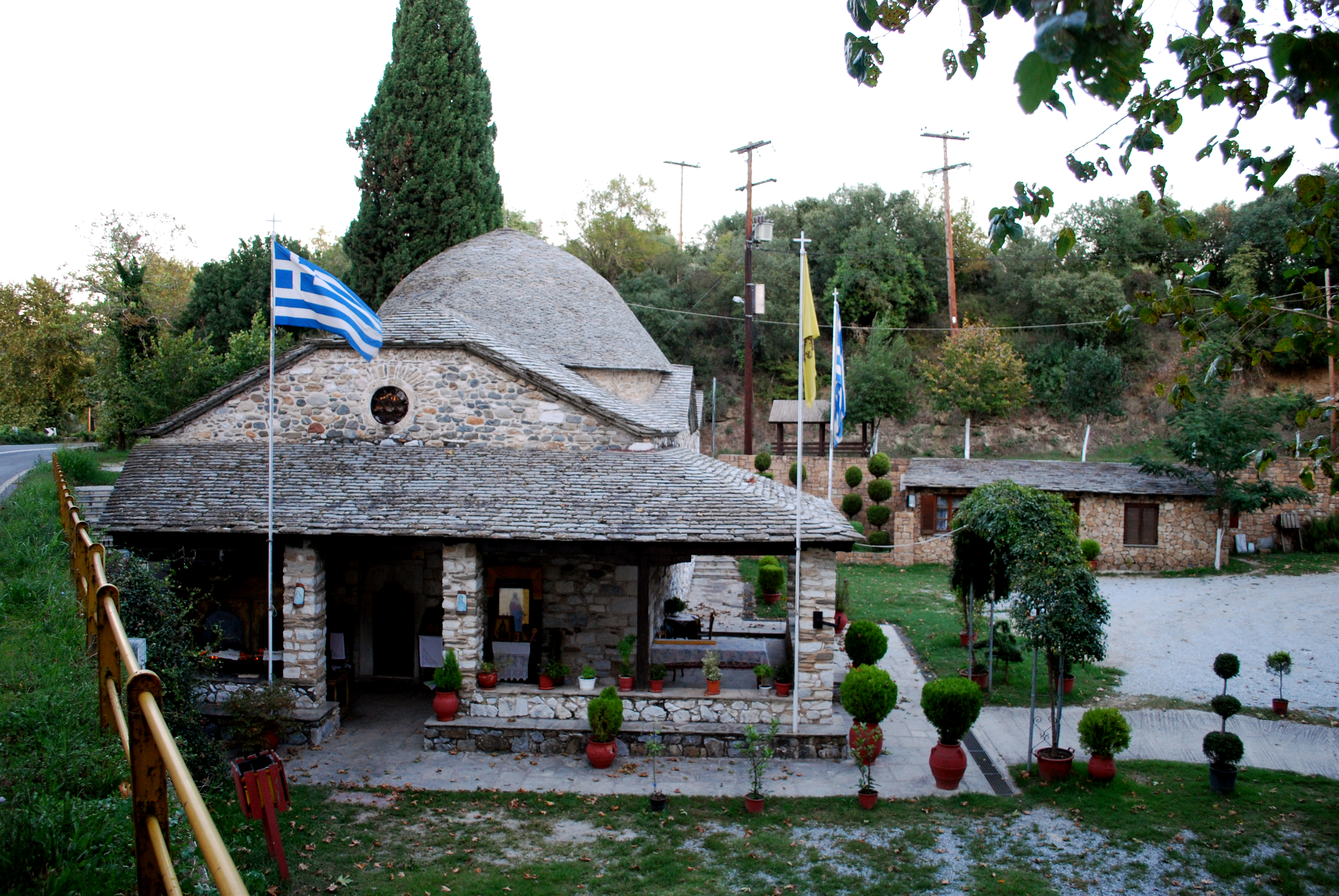 Agia Marina close to Rentina in the Thessaloniki regional unit, Greece.